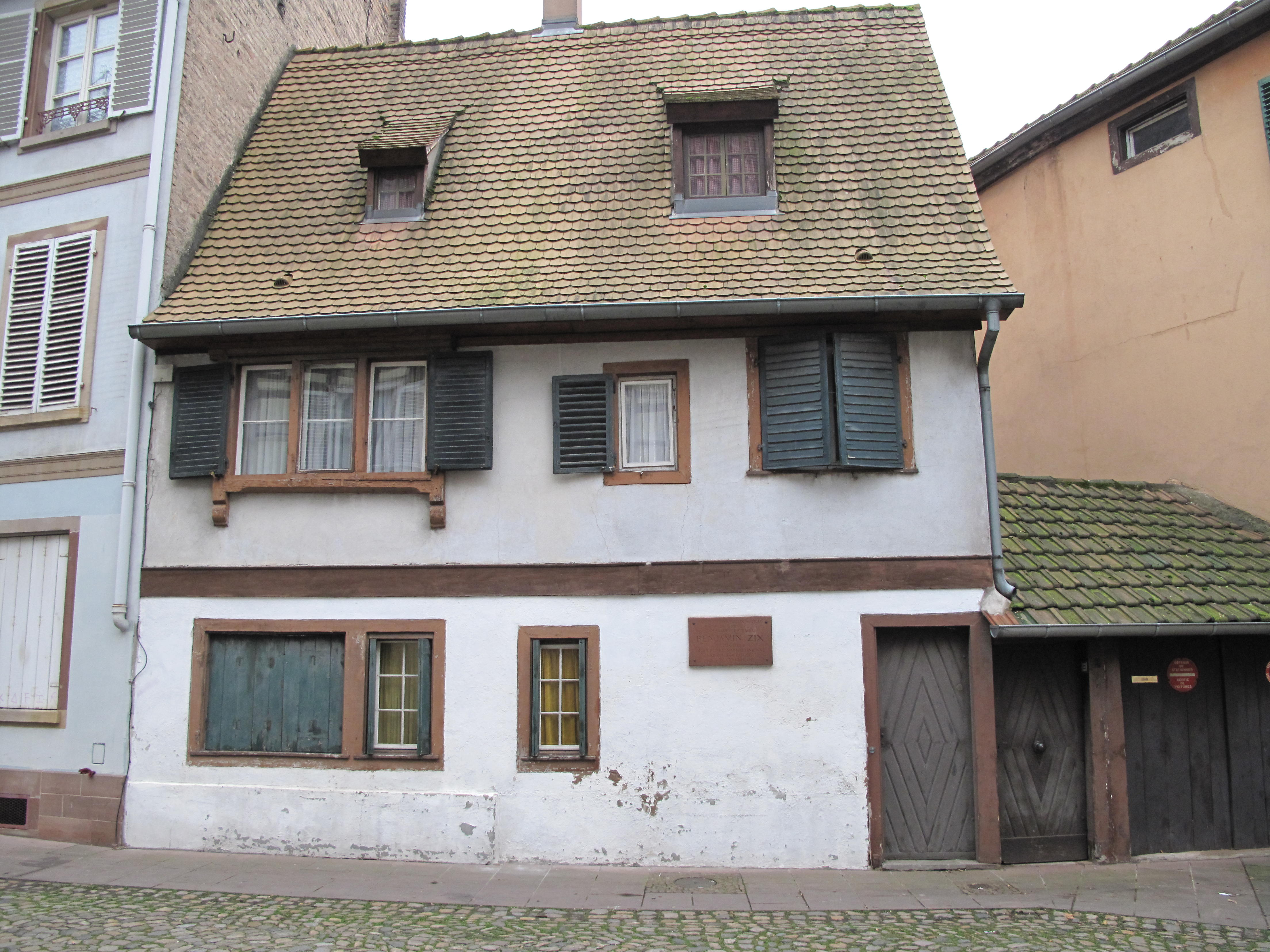 House where was born Benjamin Zix, painter of the french Empire : rue des Moulins, Strasbourg, France